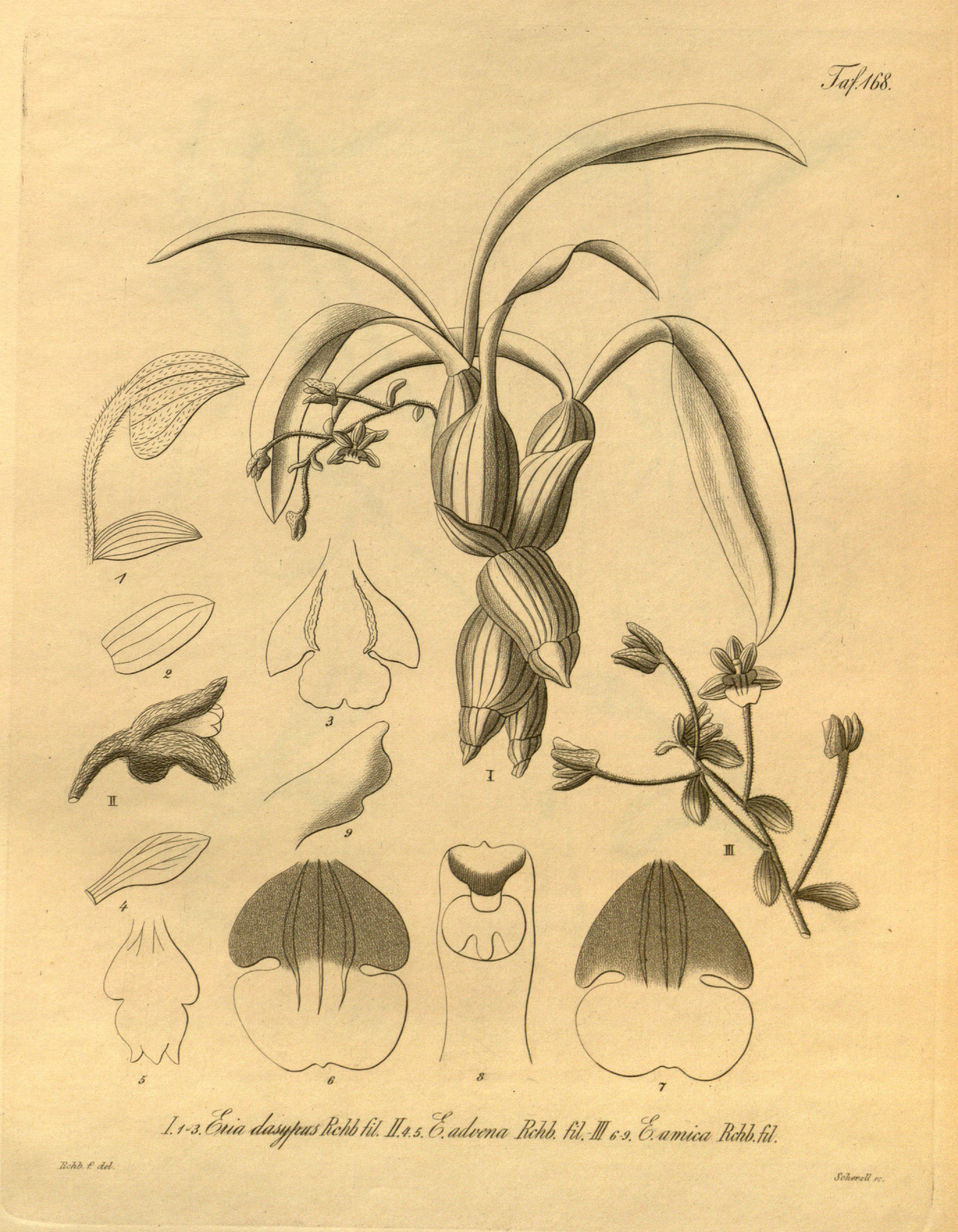 Illustration of: I, 1-3. Pinalia dasypus (as syn. Eria dasypus) II, 4-5. Eria laniceps (Eria laniceps monstr. advena, in ill. caption as Eria advena, in description, p. 162 as Eria laniceps. Monstrosity, see descr. page. III, 6-9. Pinalia amica (as syn. Eria amica)